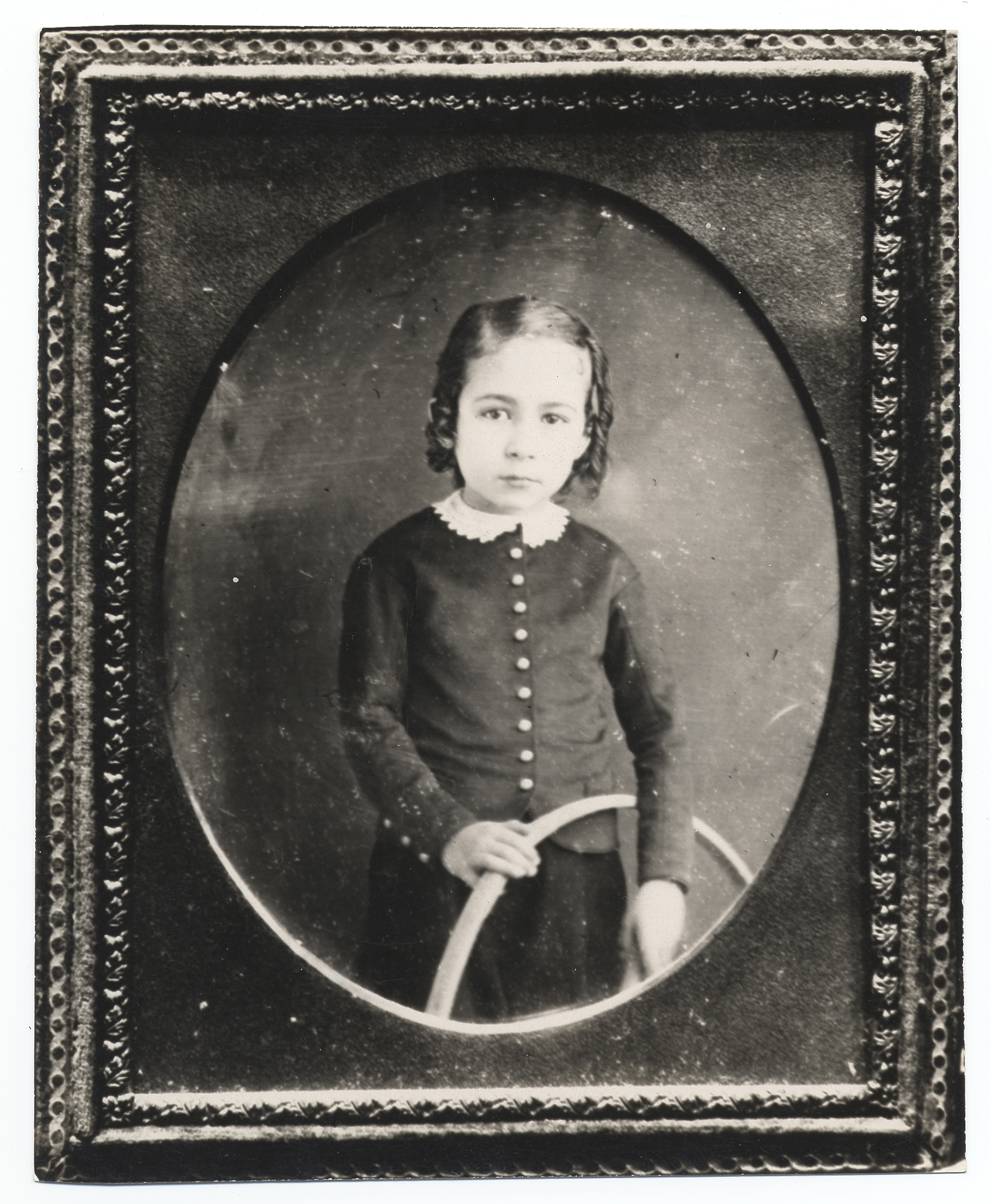 Thomas Eakins as a young boy